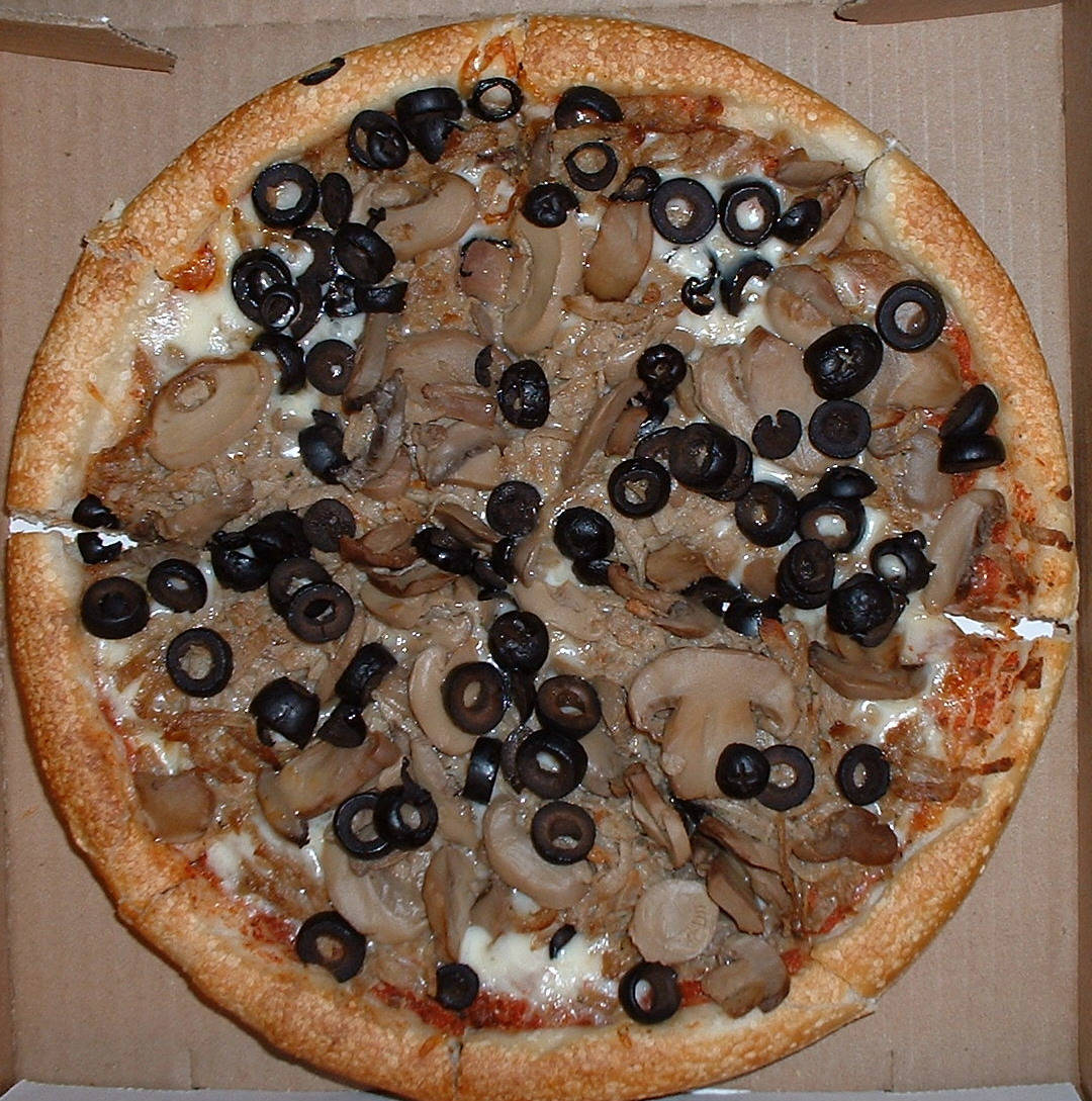 Pizza, Hamburg mushrooms and black olives